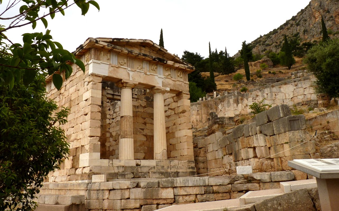 Delphi (Greek: Δελφοί, [ðelˈfi]) is both an archaeological site and a modern town in Greece on the south-western spur of Mount Parnassus in the valley of Phocis. You can use the images for free. But a link to - I would be happy :)